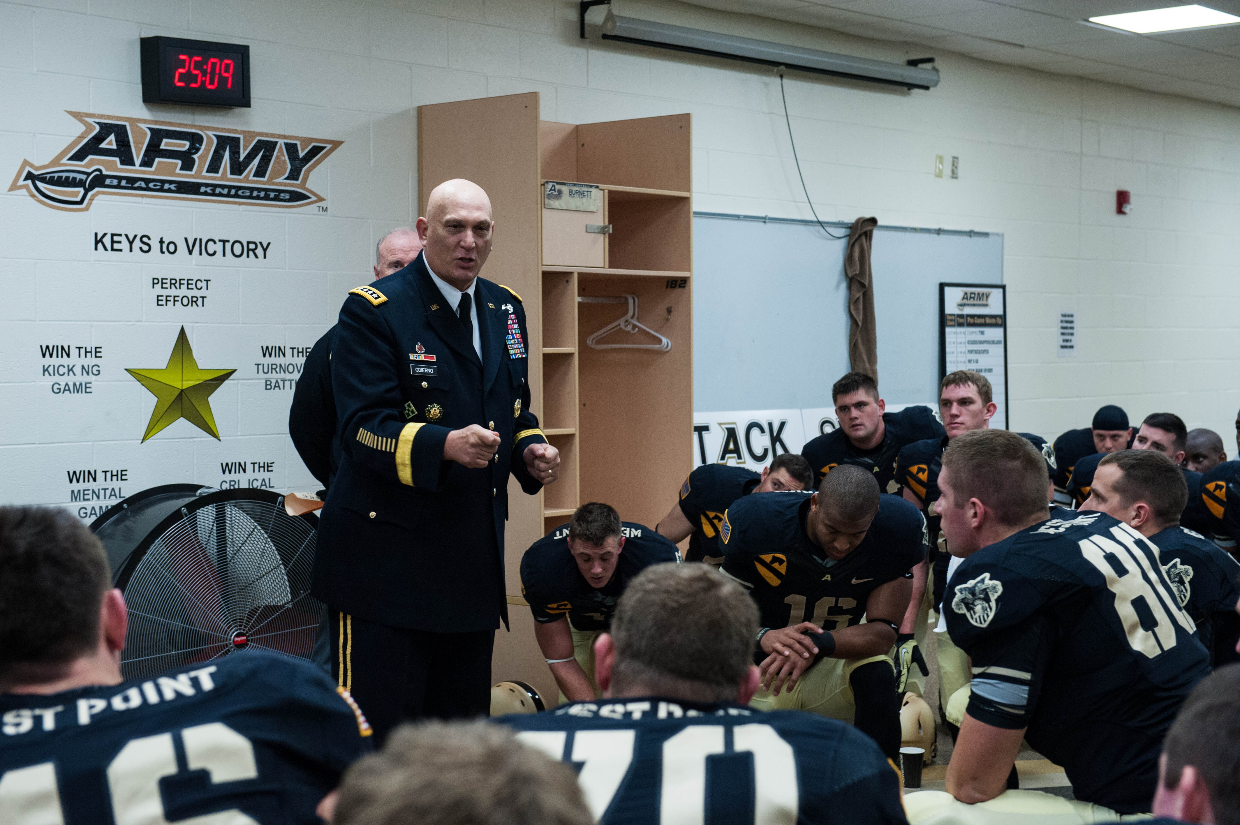 U.S. Army Chief of Staff Gen. Ray Odierno attends the Army versus Air Force Football game in West Point, NY